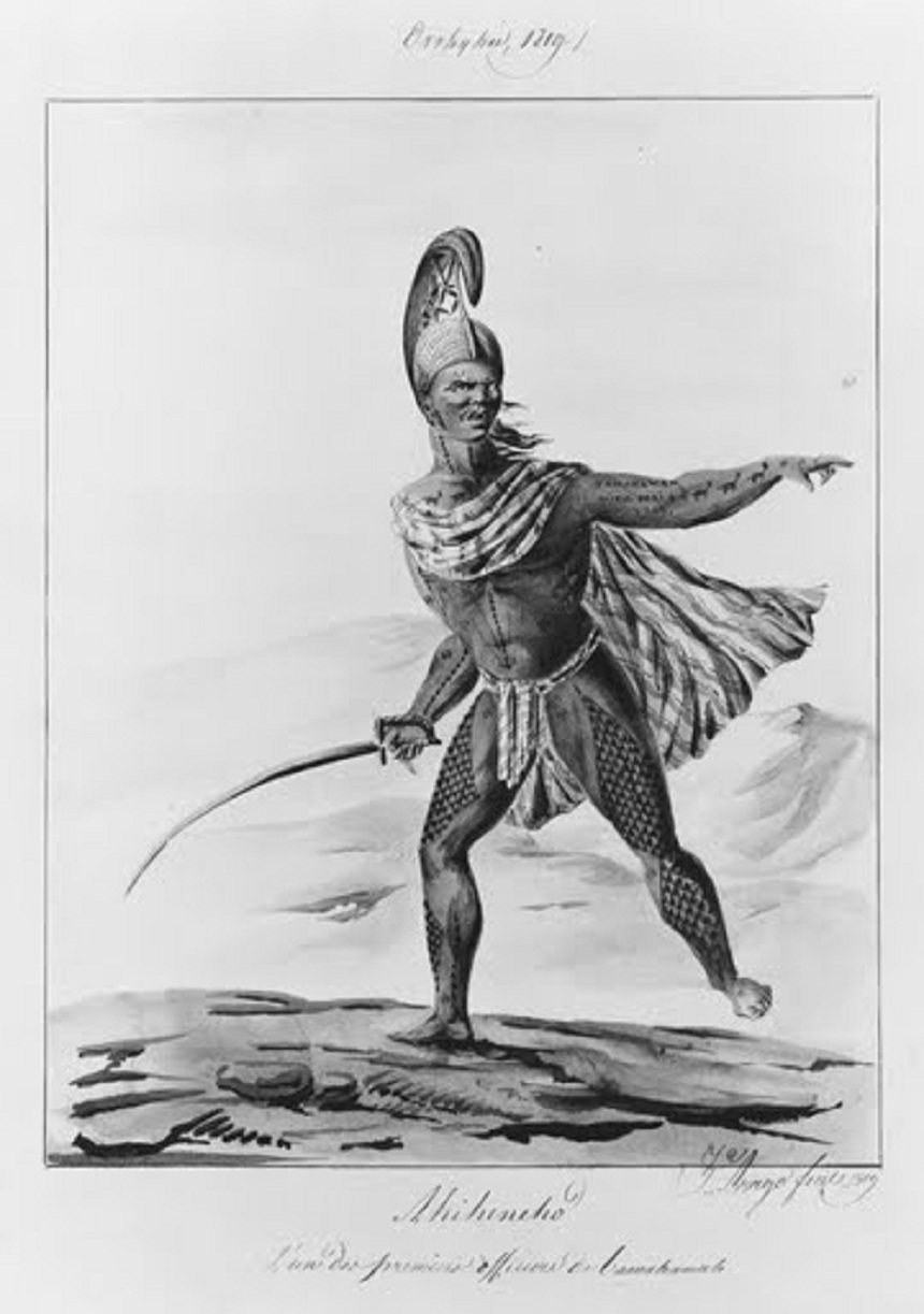 Ahiheneho, One of the First Officers of Kamehameha